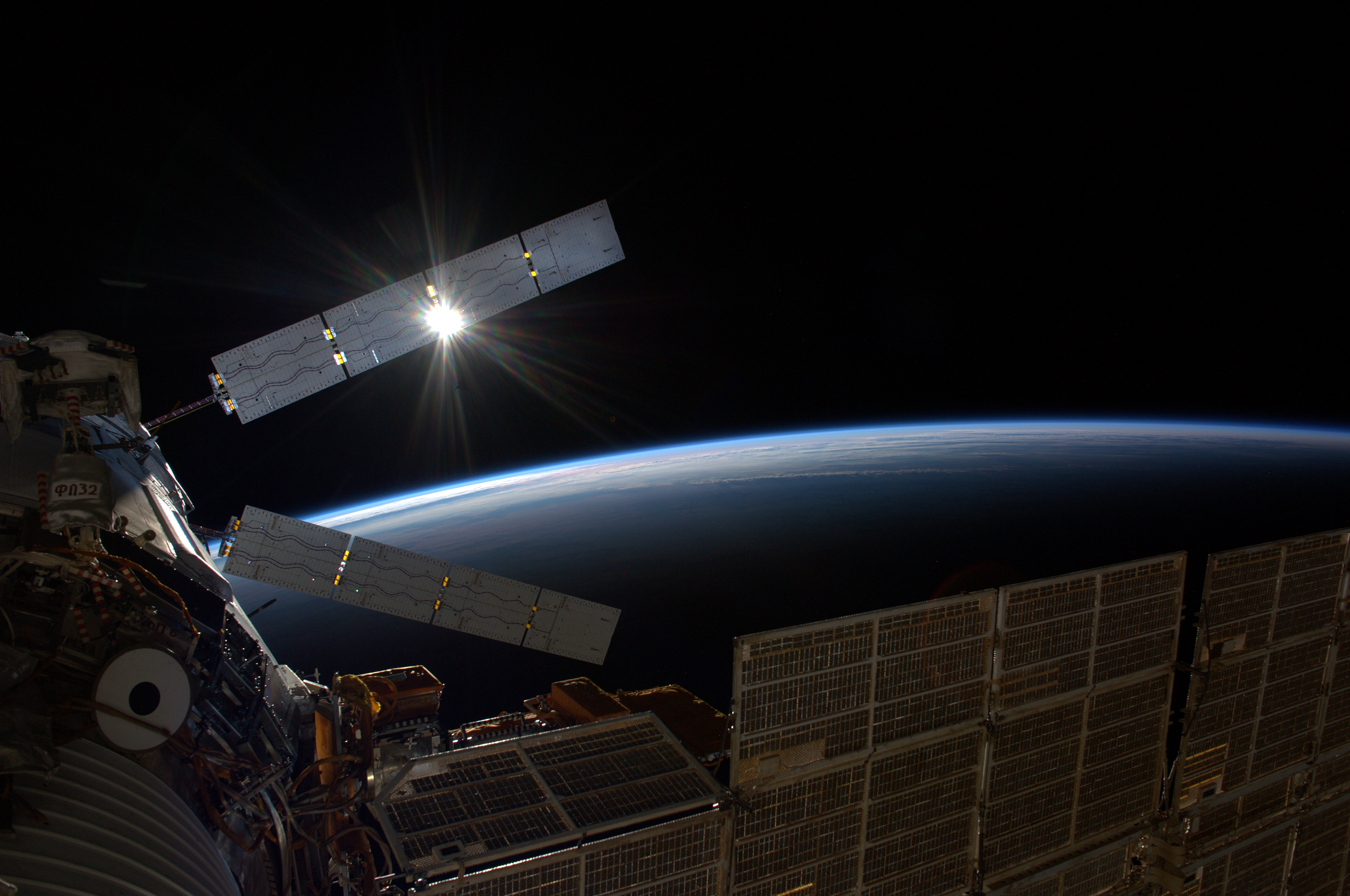 Outpost